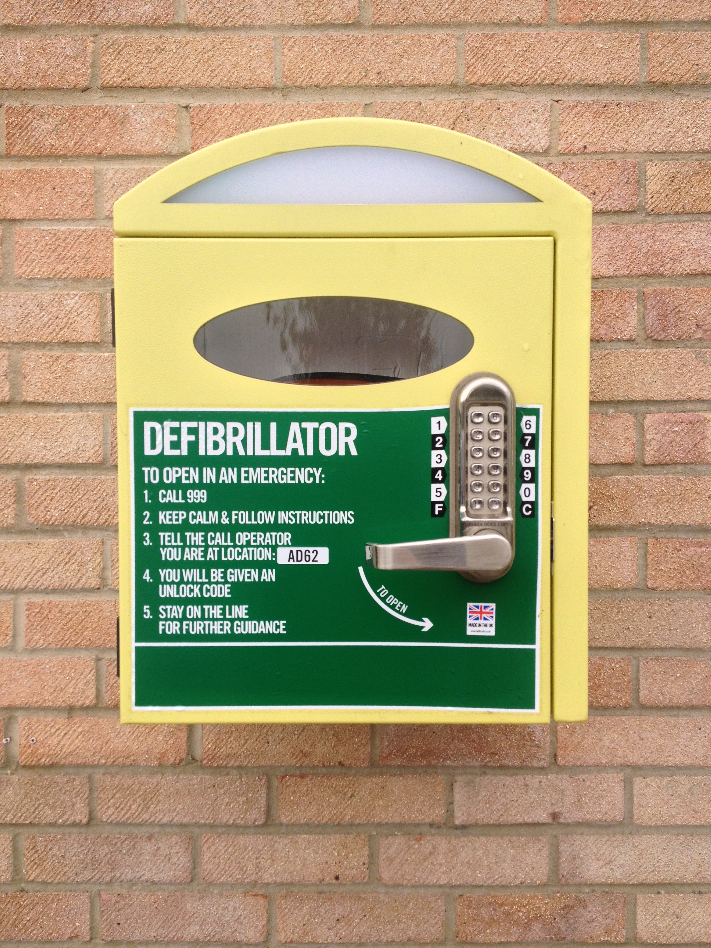 This is a public access AED (Automated External Defibrillator) located in the city of Ely, England. It is fitted with a coded lock so that only the Ambulance Service can give callers access to the unit. This is to prevent it from being stolen or misused.